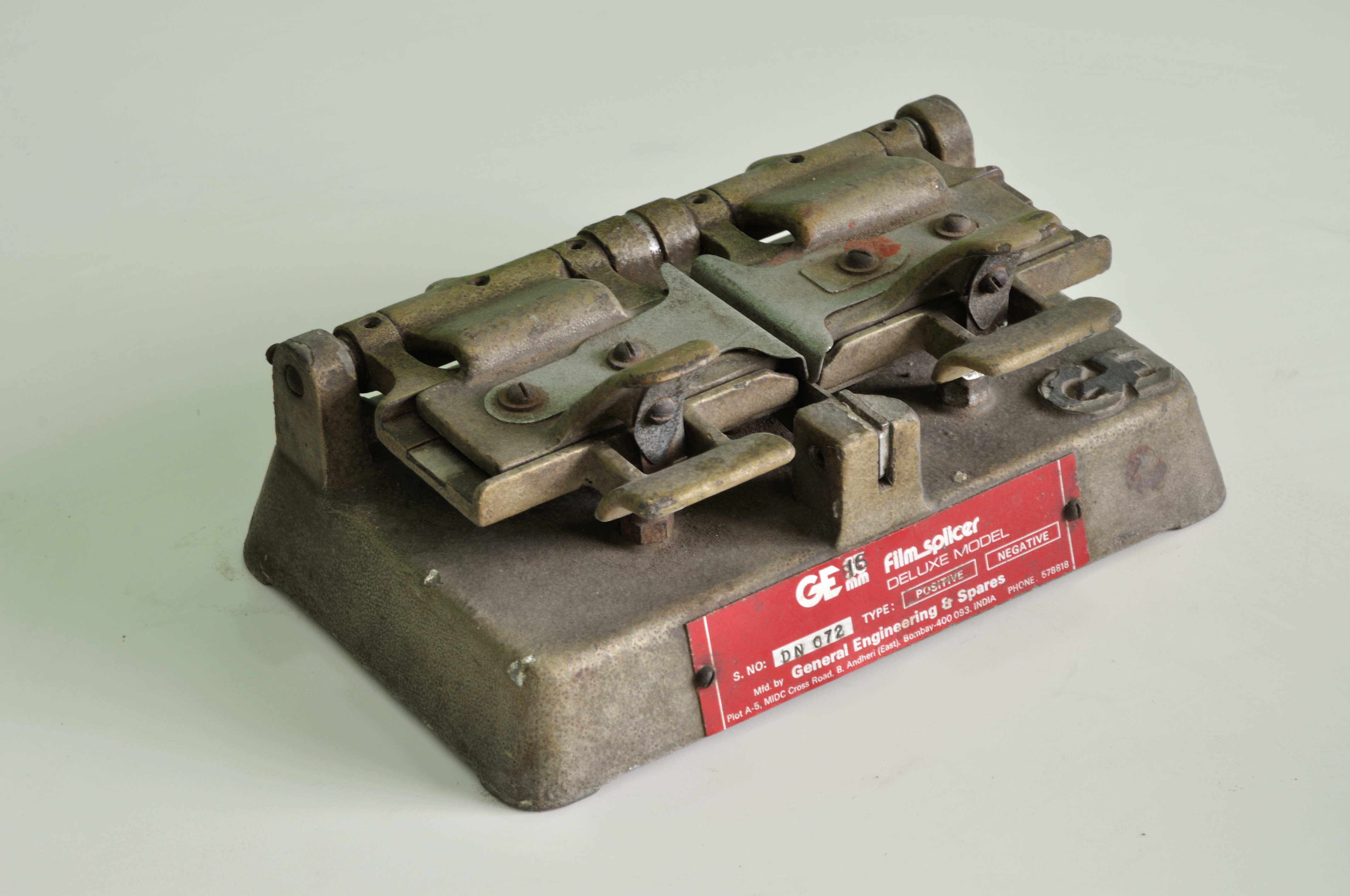 Cinematographic artifact that used in Kolkata.